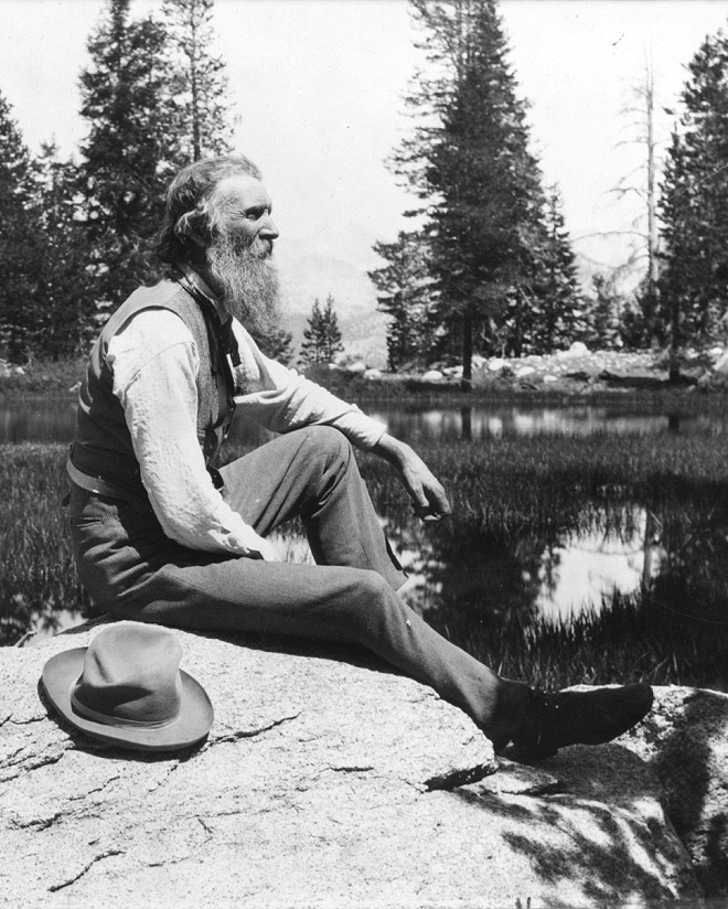 John Muir, full-length portrait, facing right, seated on rock with lake and trees in background